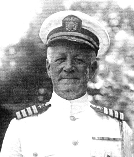 Governor of American Samoa George Landenberge in 1932